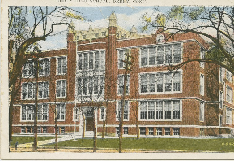 Derby high school minerva st